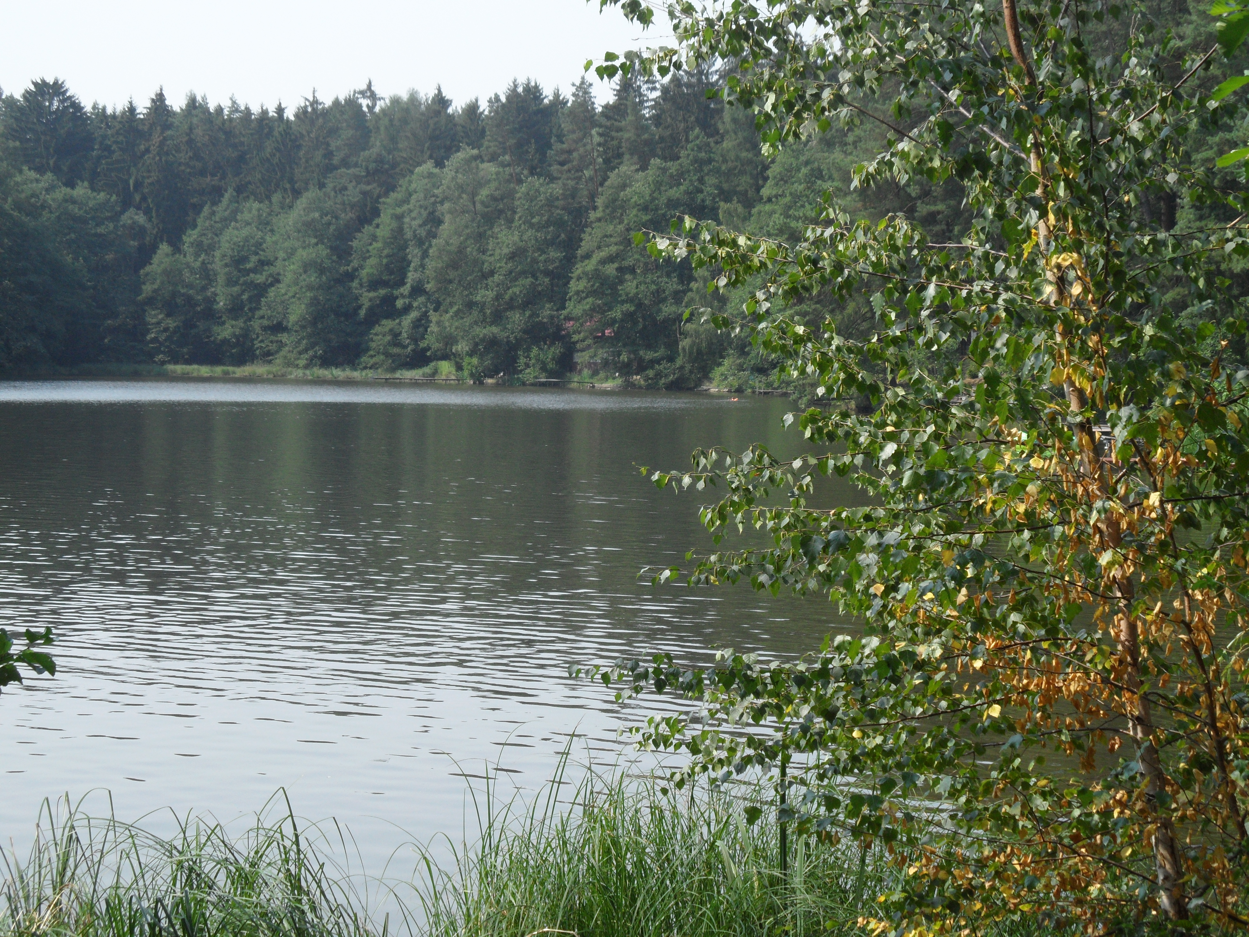 Vidlák (Černíny) A. View from the Northern Bank to the North-West Bank and Part of the Bay. Kutná Hora District, the Czech Republic.